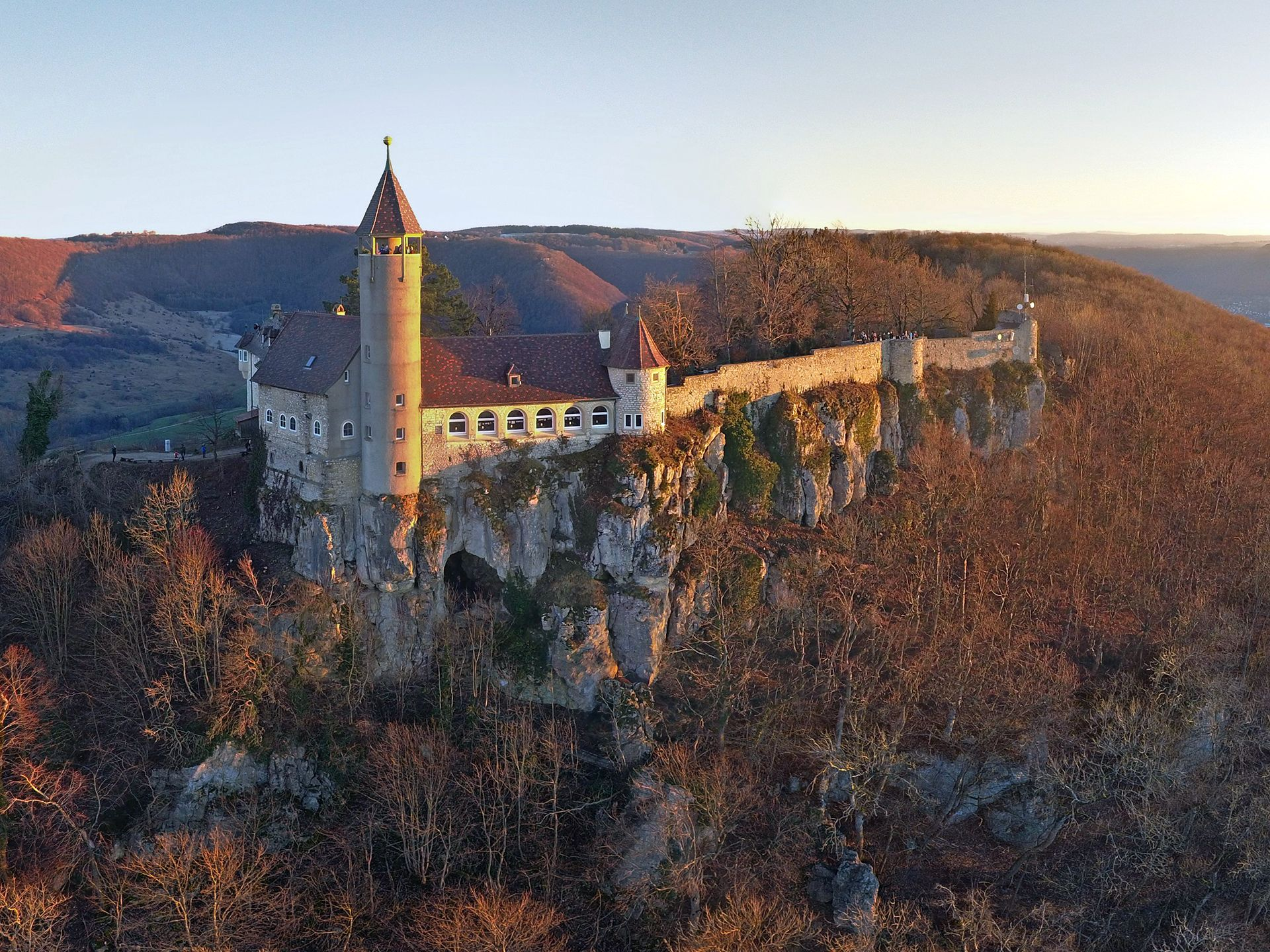 Castle Teck on Teckberg, Swabian Jura in Baden-Württemberg, Germany